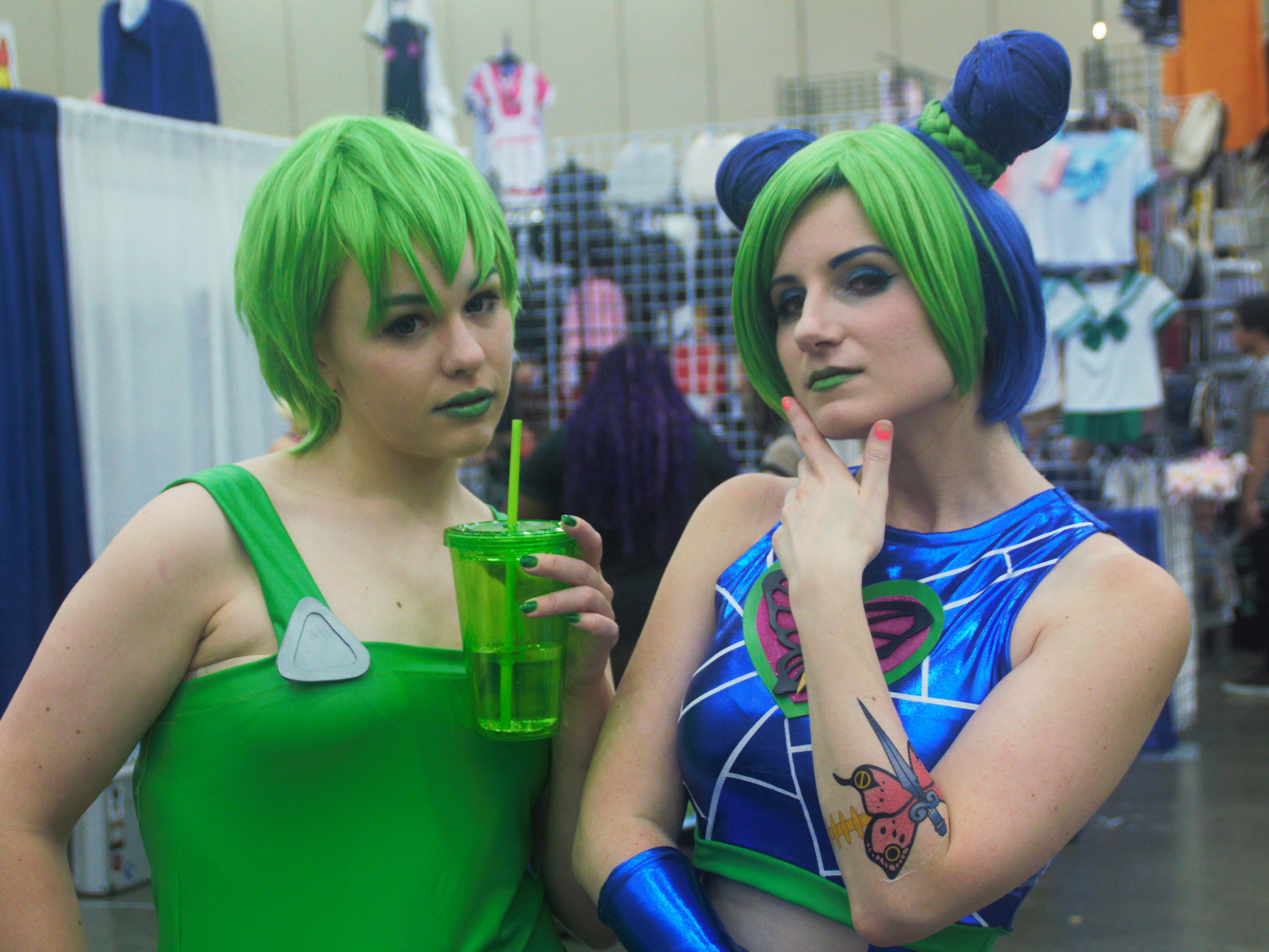 Cosplay of Foo Fighters and Jolyne Cujoh from Jojo's Bizarre Adventure: Stone Ocean at Otakon 2016